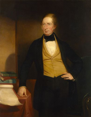 Charles Sturt, by John Michael Crossland (died 1858), given to the National Portrait Gallery, London in 1946.